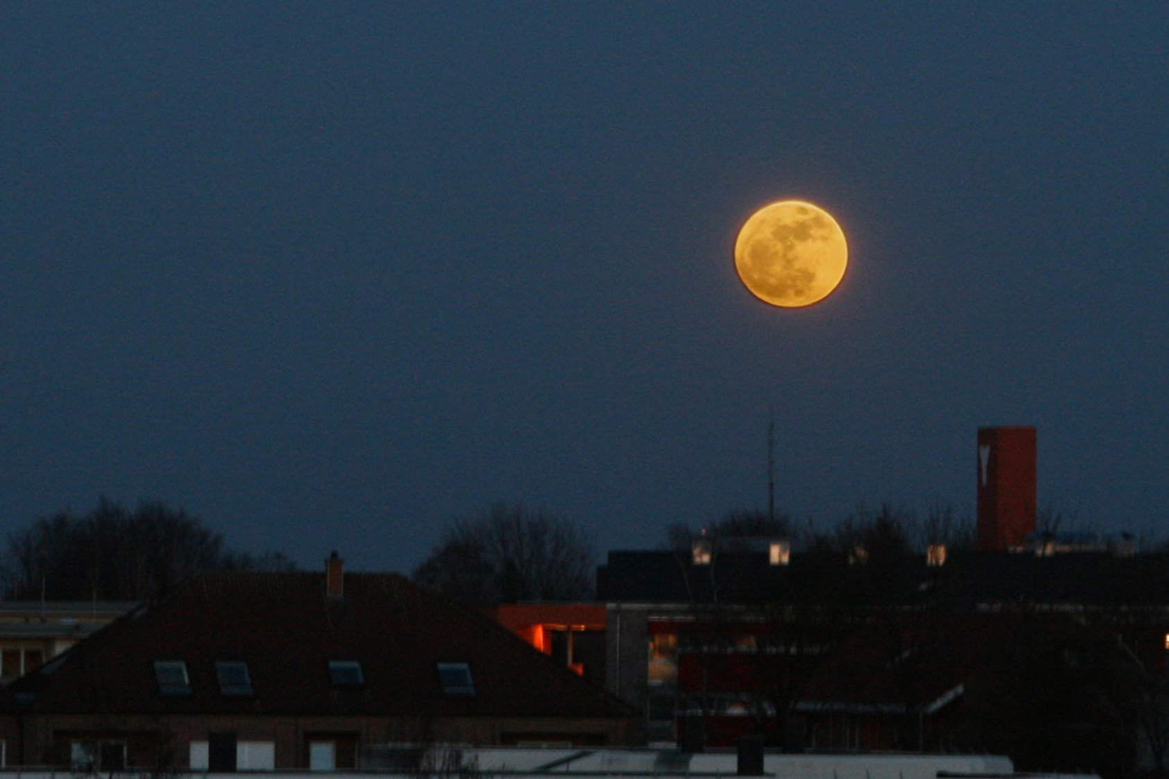 Supermoon over Munster, Germany, 2011